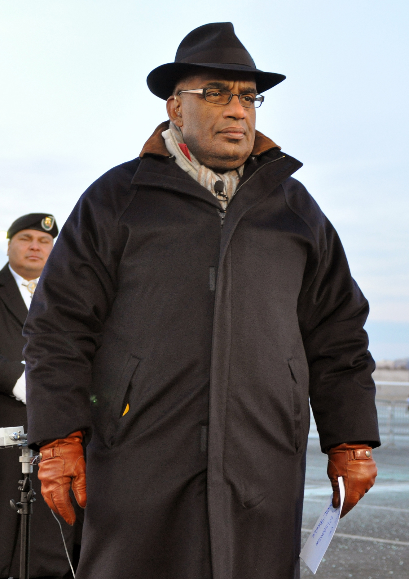 Al Roker, weather anchor for :en:NBC's Today show, prepares to broadcast a live remote from the Pentagon North Parking Lot on Jan. 20, 2009, with participants in the inaugural parade as his backdrop. The National Guard contributed about 9,300 Citizen-Soldiers and -Airmen to support the en:56th Presidential Inauguration. "When it comes down to our security, both domestically and internationally, the National Guard is obviously an integral part of that," Roker said. (U.S. Army photo by Staff Sgt. Jim Greenhill) (Released)